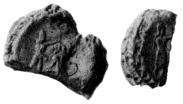 Undated seal impressions from Nineveh of a beardless Assyrian king, possibly Sin-shumu-lishir